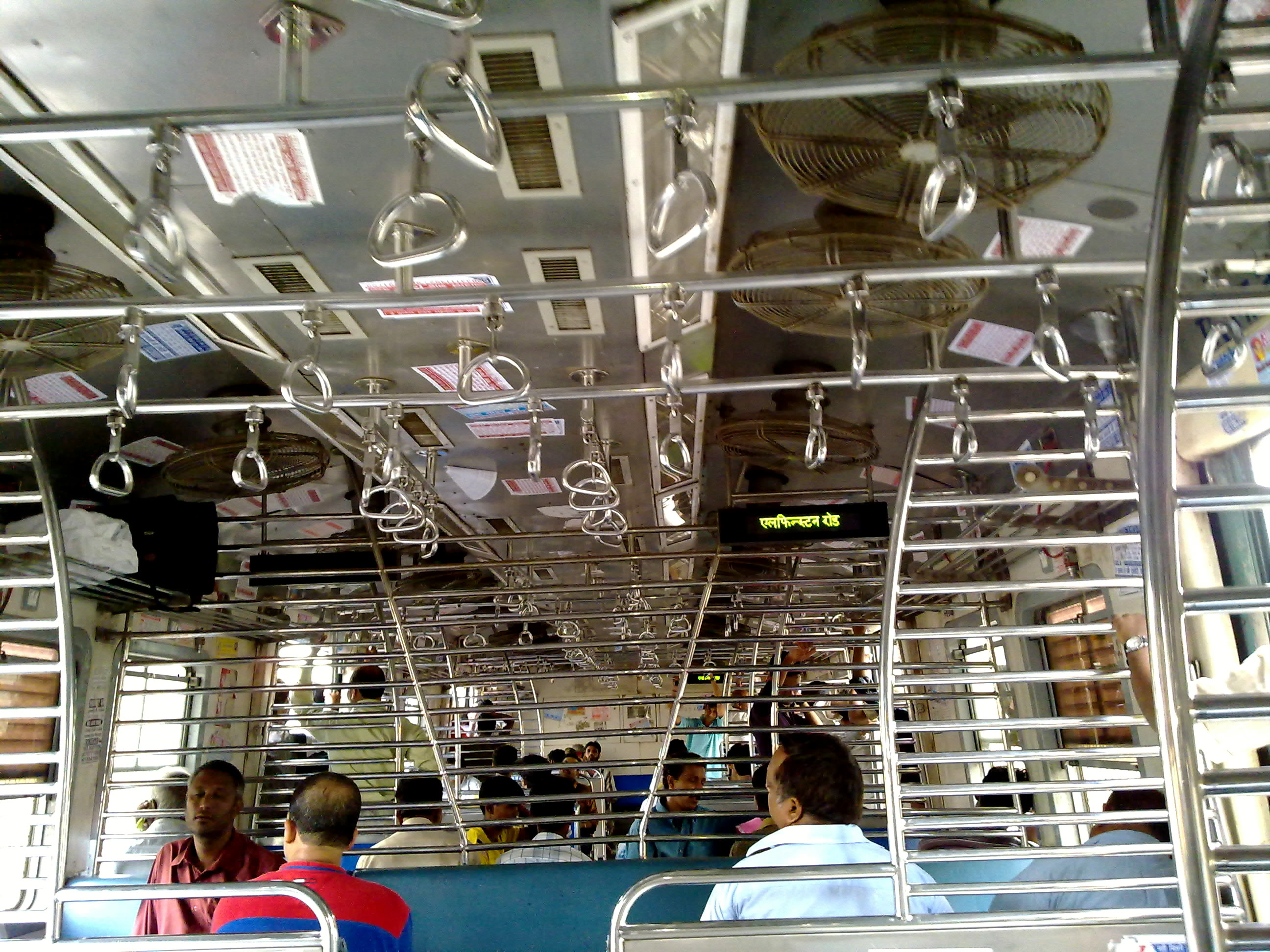 Inside View of Mumbai Local Train